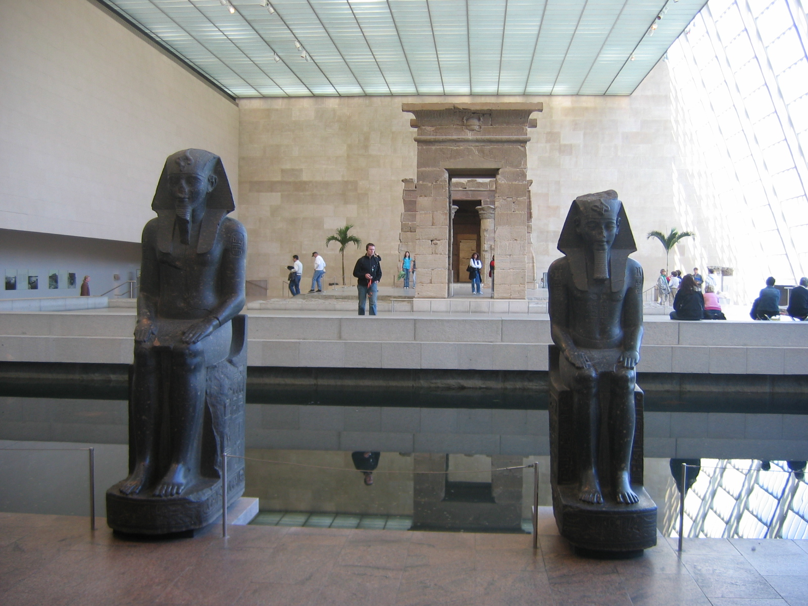 Temple de Dendur, Metropolitan Museum of Art, New York